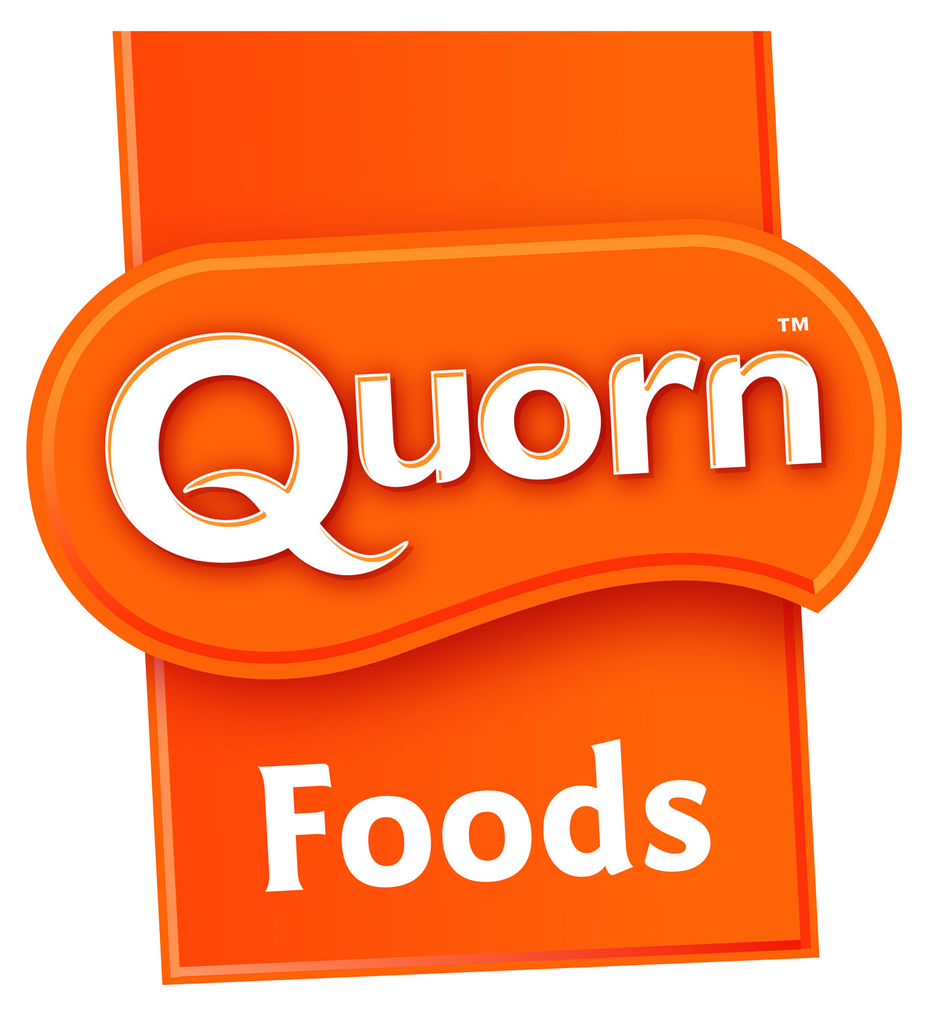 quorn